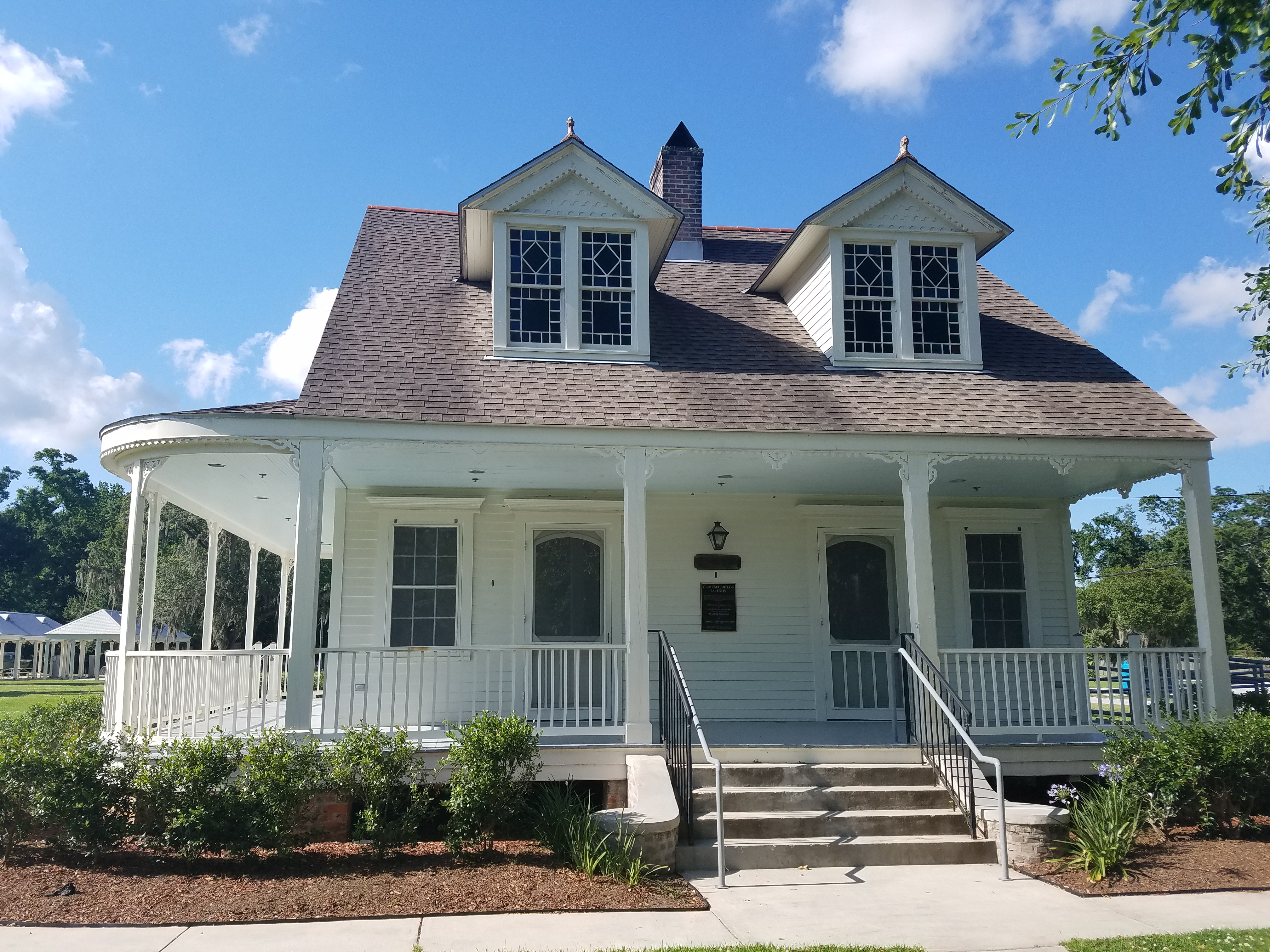 Image of the front of El Museo de los Isleños (Isleño Museum) in Saint Bernard, Louisiana.